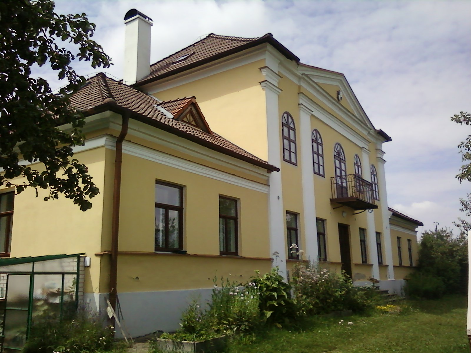 Lovecký zámeček Chaloupky u Nové Brtnice